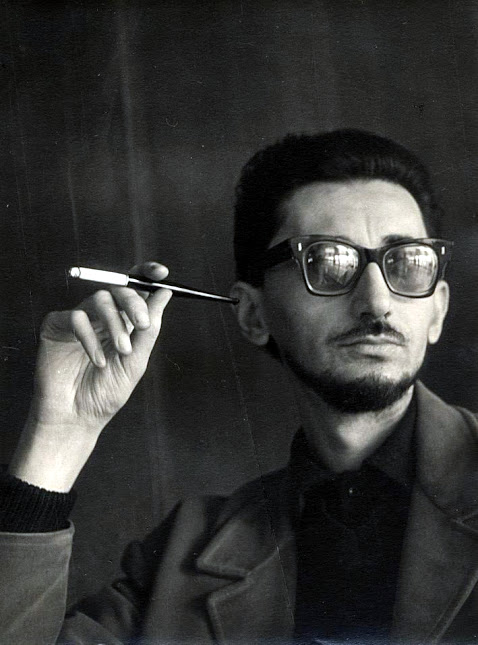 Pekic, 1964